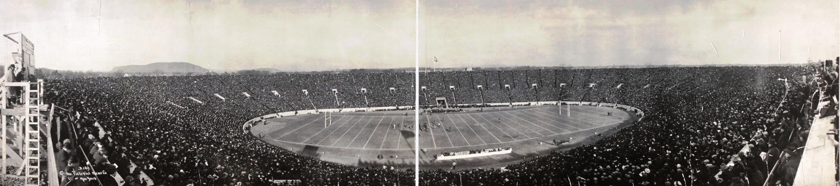 A football game between the Yale Bulldogs and Harvard Crimson.